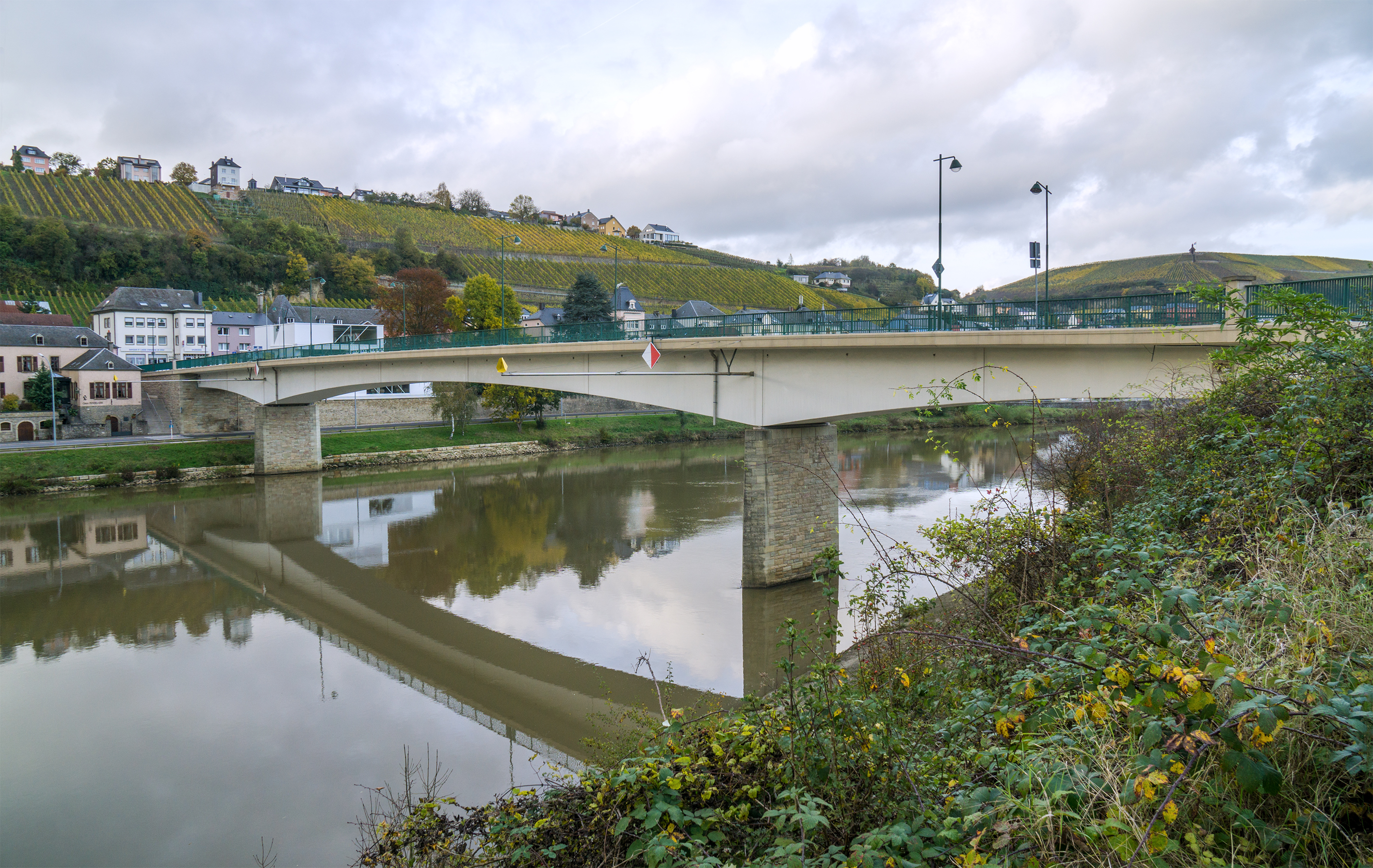 Bridge Wormeldange-Wincheringen over the Moselle river seen from the german side